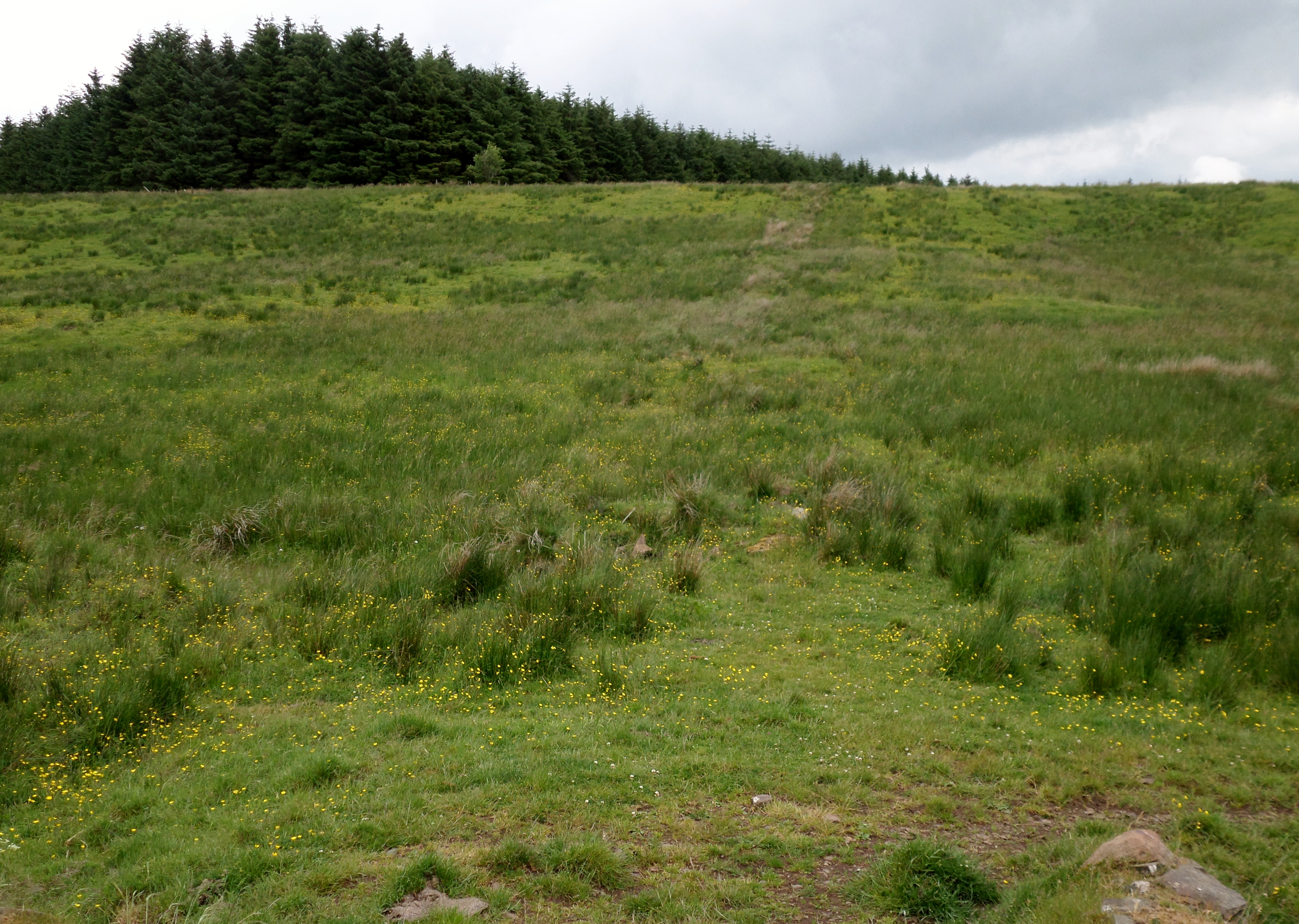 Old wall and ruined sheep ree from Blacklaw Bridge, Kingsford, Annick Water, Strathannick, East Ayrshire, Scotland.